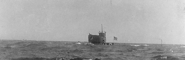 NH-53612 USS H-9 submerging, circa 1922 (cropped)